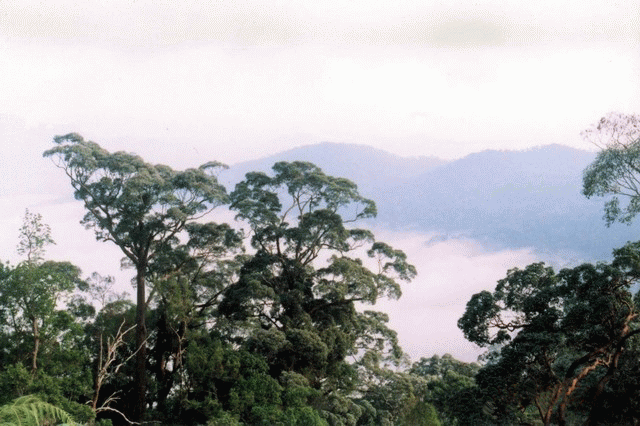 Gunung Tahan, view from the peak.